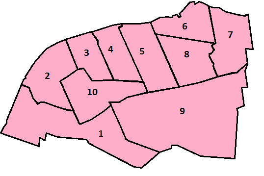 Map of Windsor, Ontario's wards used since 2010